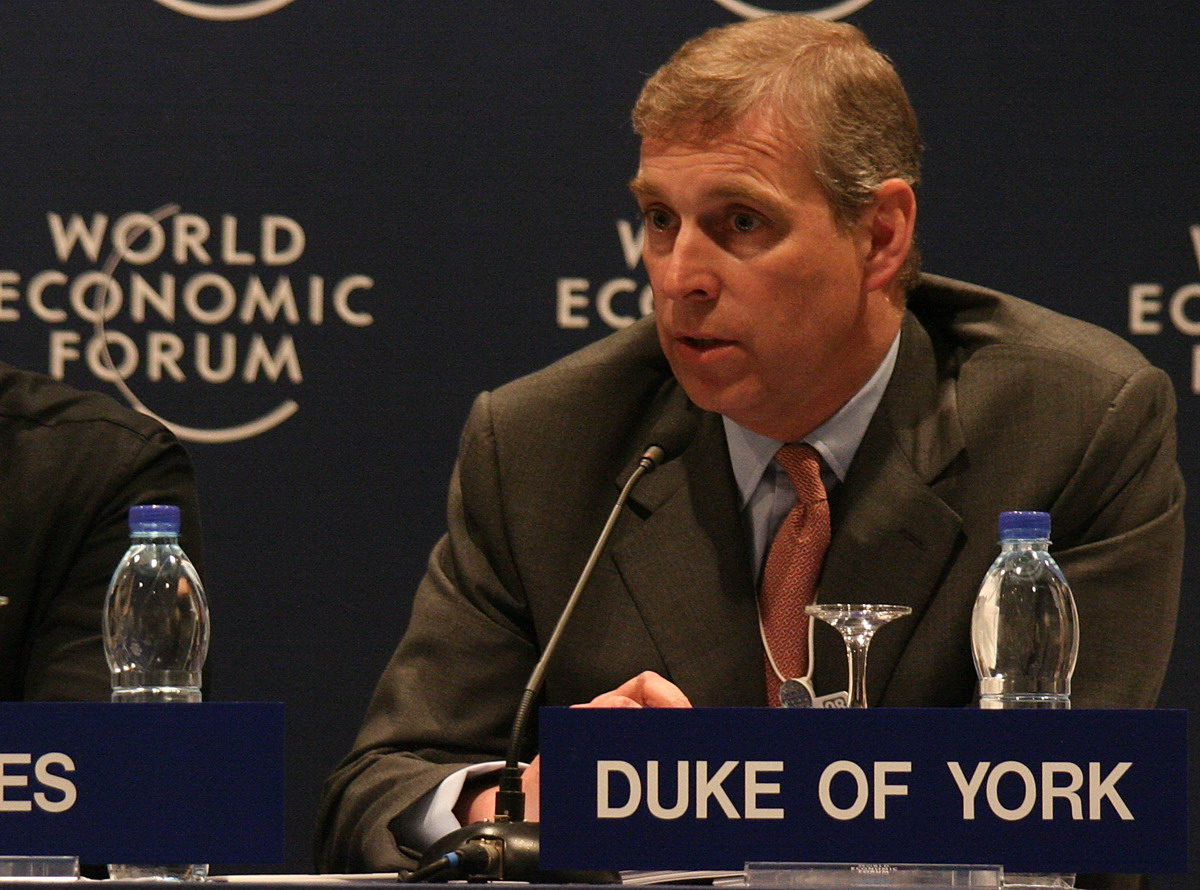 Prince Andrew, Duke of York, UK Special Representative for International Trade and Investment captured during the session "The Future of the Middle East" at the World Economic Forum on the Middle East 2008 held in Sharm el-Sheikh, Egypt.Copyright World Economic Forum (